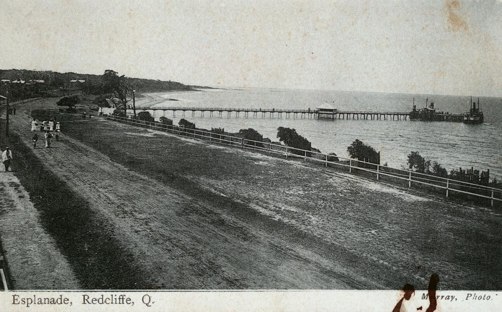 Esplanade at Redcliffe near the jetty, 1906.